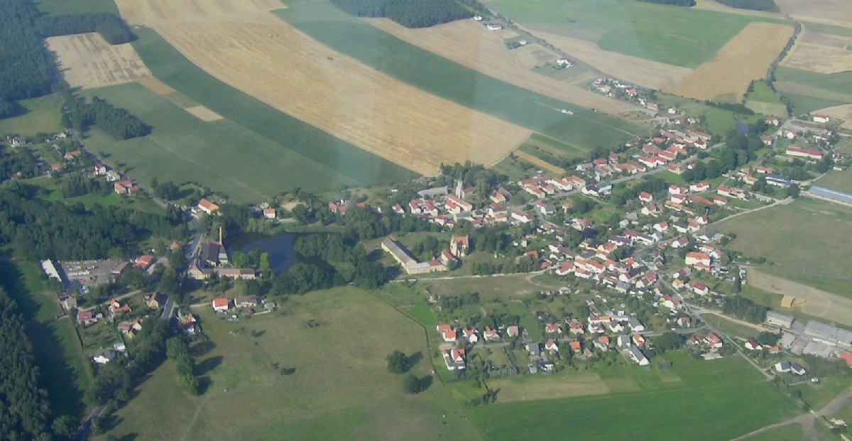 Aerial view of Schmorkau